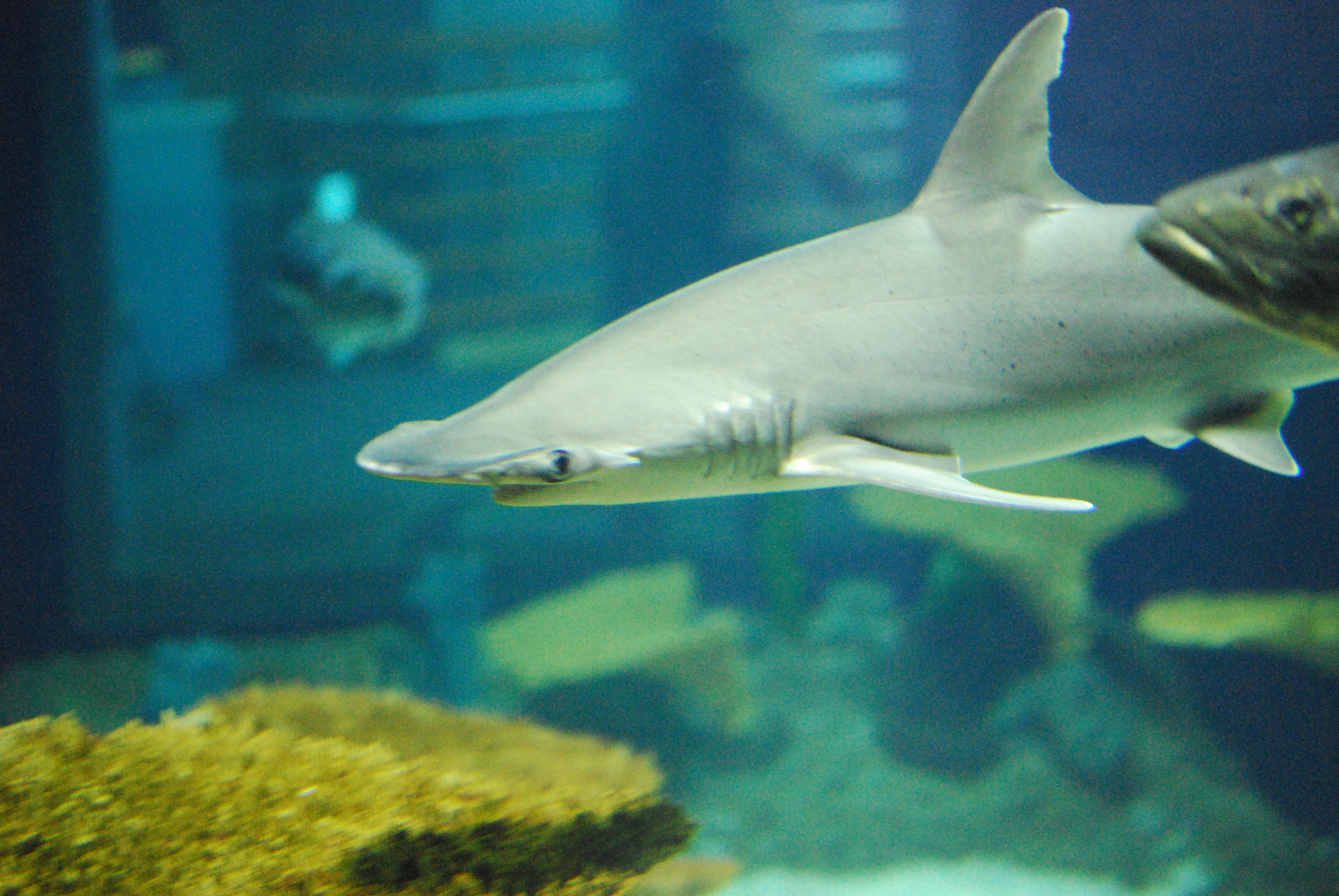 Bonnethead shark (Sphyrna tiburo) at the Aquarium of the Americas, New Orleans